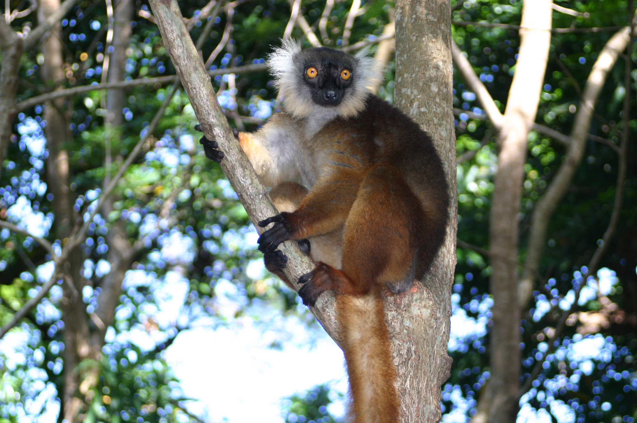 Female Black Lemurs,Eulemur macaco. The black lemur is one of 28 species of lemurs, which are relatives to monkeys and apes and is so called True lemur. The black lemur got its name from a male coloration , which is black, while female is brown. The difference in the colors between male and female black lemurs is unique for lemurs. The image was taken at Madagascar